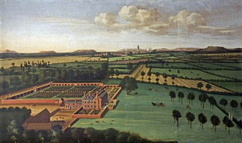 Robins, Thomas; Gloucester from Hempsted; Gloucestershire County Council